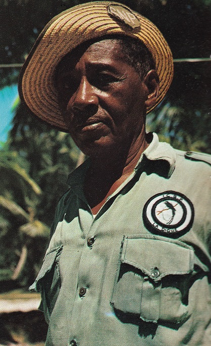 Warden employed to keep an eye over the birds on La Digue, Seychelles. He wears the mark of ICBP (International Council for Bird Preservation, now: BirdLife Interational) on his uniform.